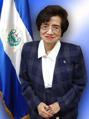 María Isabel Rodríguez, es rectora de la Universidad Nacional de El Salvador y actual Ministra de Salud